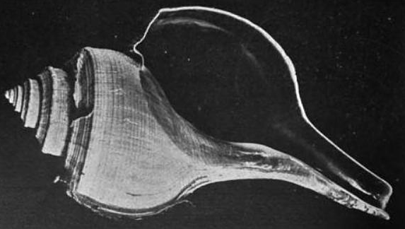 shell of Channeled whelk Busycotypus canaliculatus. The source of white wampum beads. Photographed by A. R. Dugmore.